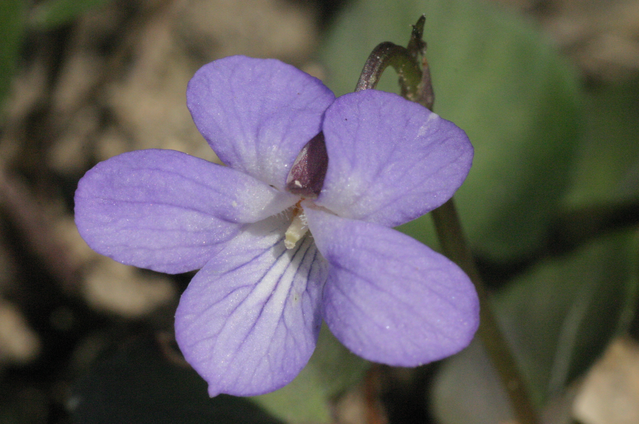 Viola rupestris